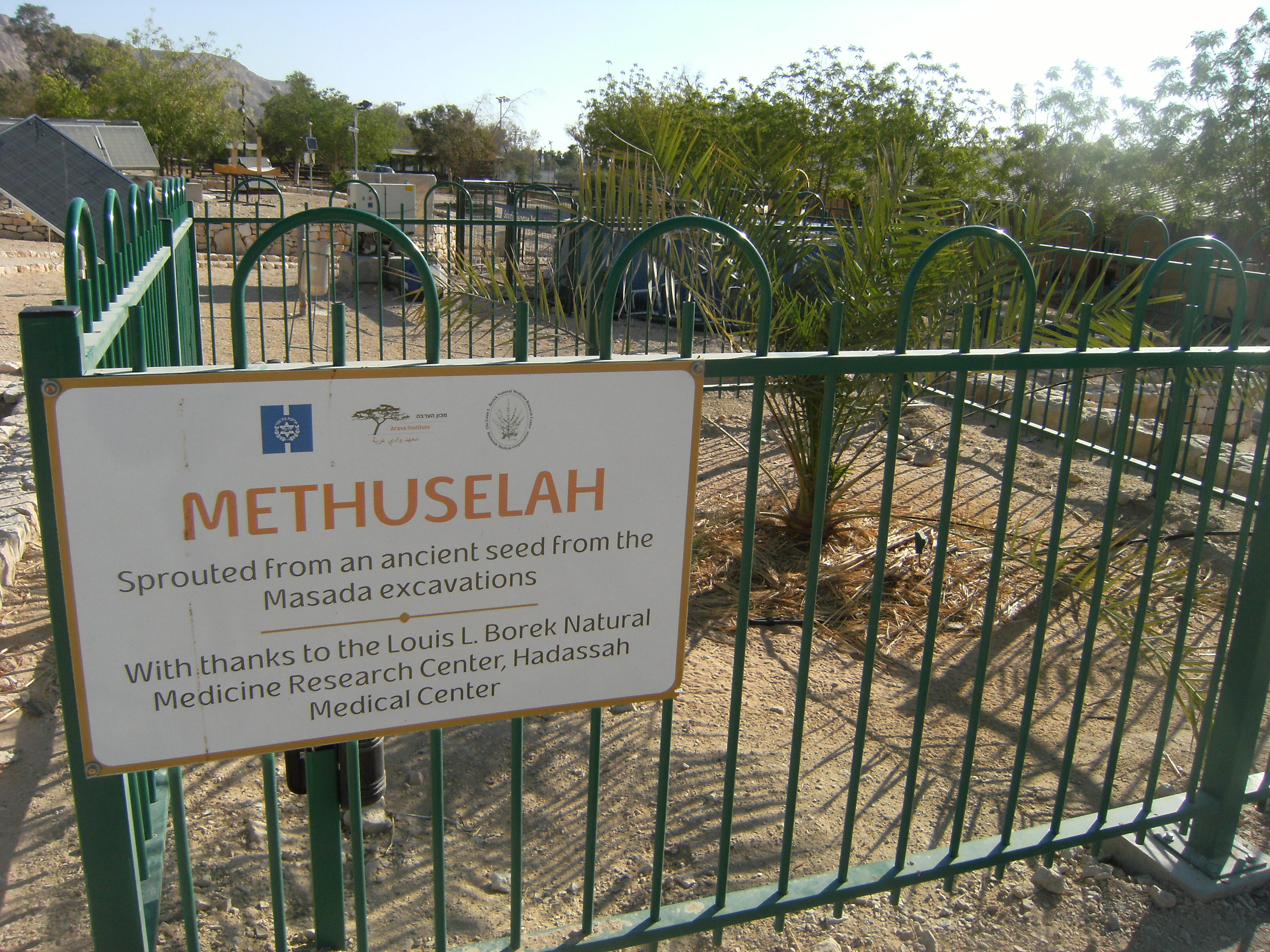 The only example of a Judean Date Palm located at Kibbutz Ketura, Israel. It was germinated in 2005 artificially from a 2000 year-old seed found in the Masada excavations, and is nicknamed "Methuselah". 05:58 UTC (07:58 IST)